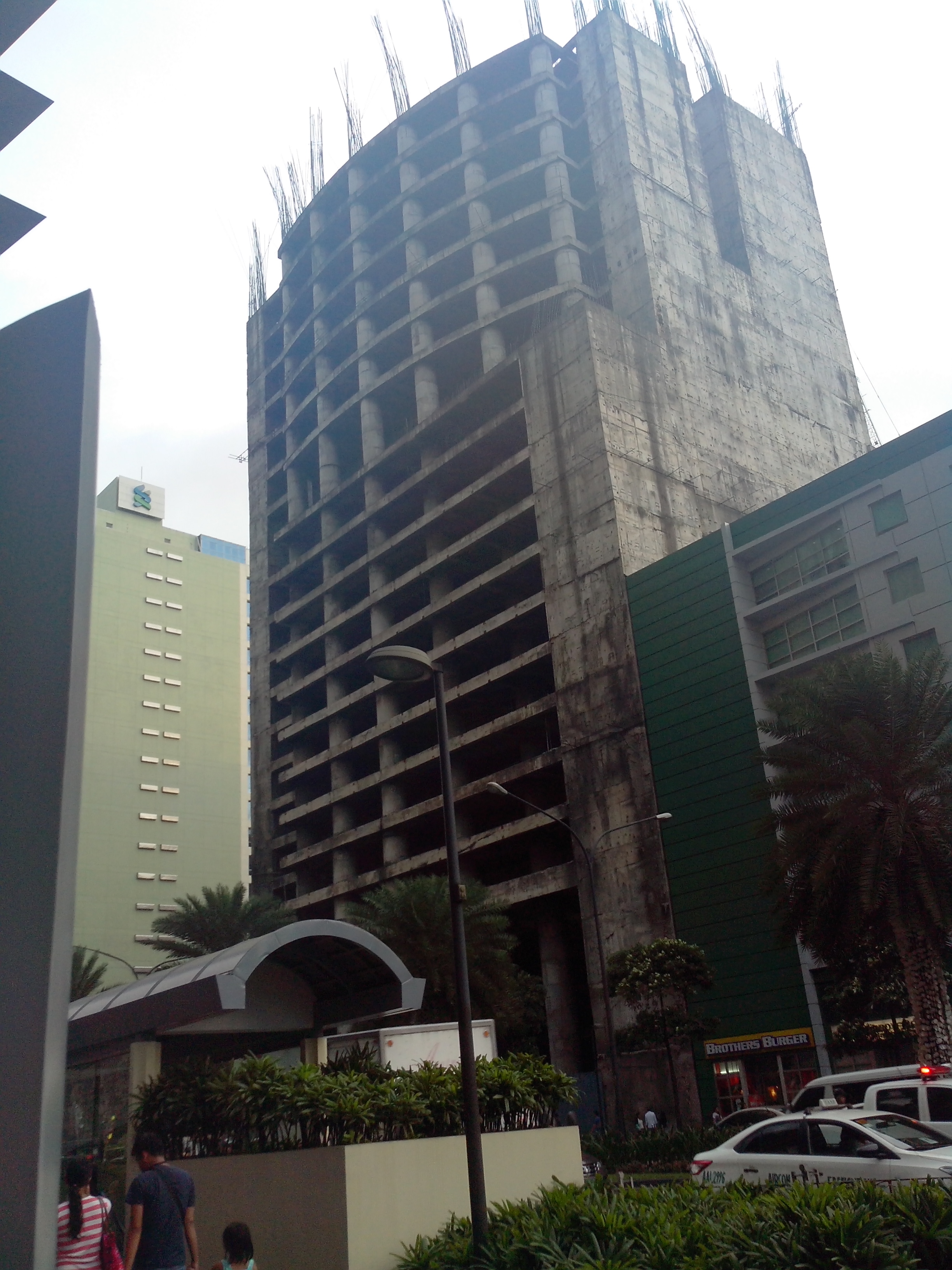 The JAKA Tower as of December 2015. Construction of the supposed 49 storey building was halted for years and is effectively abandoned. It is acquired by Ayala Land though who plans to redevelop the site.